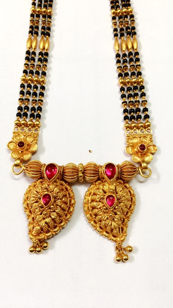 Mangalsutra